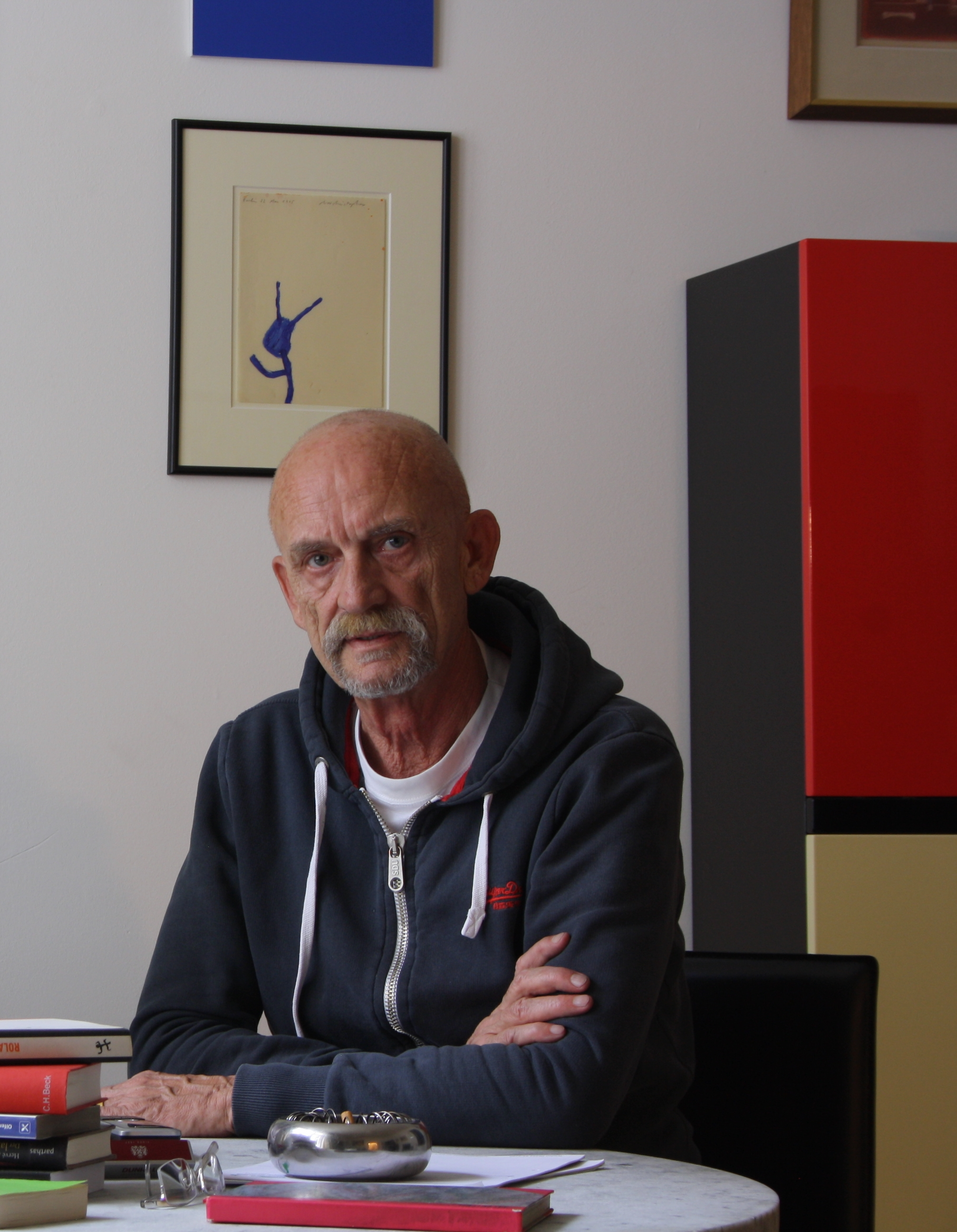 Martin Dannecker in July 2011